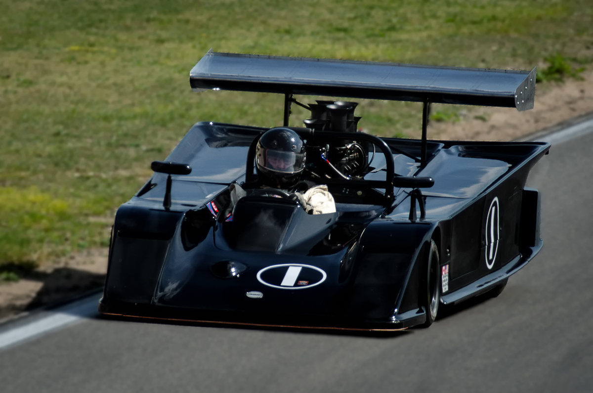 Shadow MK I